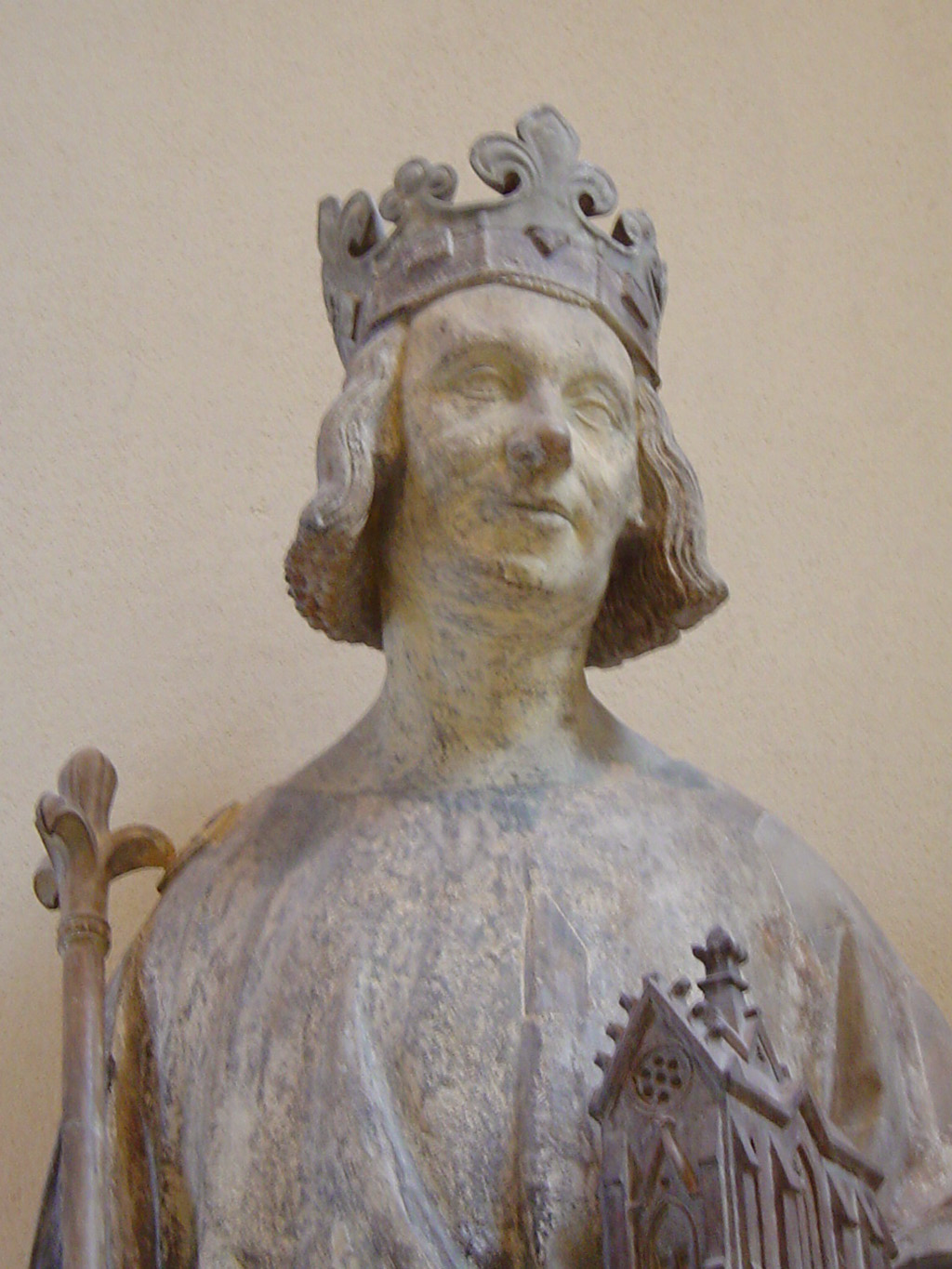 Charles V